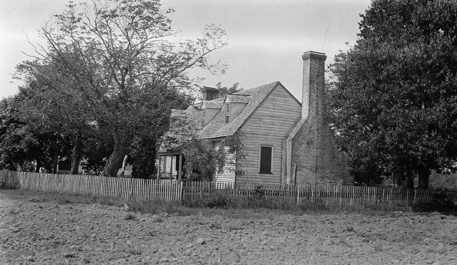 Linden Farm, Lancaster Road, Warsaw vicinity (Richmond County, Virginia) cropped, HABS VA,80-WAR.V,8-1 This file comes from the Historic American Buildings Survey (HABS), Historic American Engineering Record (HAER) or Historic American Landscapes Survey (HALS). These are programs of the National Park Service established for the purpose of documenting historic places. Records consist of measured drawings, archival photographs, and written reports. When reusing please credit: Library of Congress, Prints & Photographs Division, VA-566 This tag does not indicate the copyright status of the attached work. A normal copyright tag is still required. See Commons:Licensing for more information. This work is in the public domain in the United States because it is a work prepared by an officer or employee of the United States Government as part of that person’s official duties under the terms of Title 17, Chapter 1, Section 105 of the US Code. See Copyright. Note: This only applies to original works of the Federal Government and not to the work of any individual U.S. state, territory, commonwealth, county, municipality, or any other subdivision. This template also does not apply to postage stamp designs published by the United States Postal Service since 1978. (See § 313.6(C)(1) of Compendium of U.S. Copyright Office Practices). It also does not apply to certain US coins; see The US Mint Terms of Use. This file has been identified as being free of known restrictions under copyright law, including all related and neighboring rights.